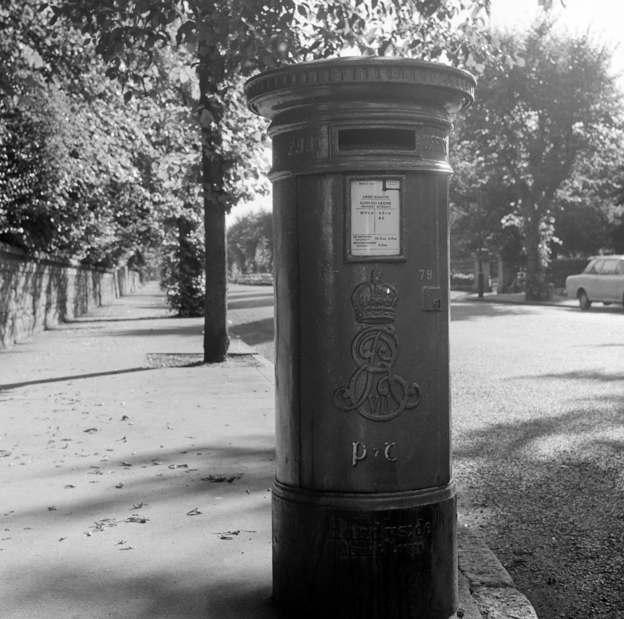 Completing our "Wiltshire Week" is this image of a post box in Dublin 4. Though repainted and rebranded with the P&T logo, this post box was almost certainly installed more than 50 years before this image was captured. A further 50 years later, presumably it still remains. If so, can someone run out and try and catch the last post? Although maybe there's no panic - as it seems there's 2 further collections on a Saturday (though perhaps not over a bankholiday weekend).... The consensus is that the post box dates to the early years of the reign of Edward VII (1901-1910), and was built by Handyside & Company (of Derby and London). The post box remains at the junction of Clyde Rd and Raglan Rd. Although almost certainly with less frequent collections than the 3x weekday (and 3x weekend) pickups indicated here. The MkII Cortina also probably made it's last pickup quite some time ago.... Photographer: Elinor Wiltshire Date: 1969 NLI Ref: WIL 51[3] You can also view this image, and many thousands of others, on the NLI’s catalogue at